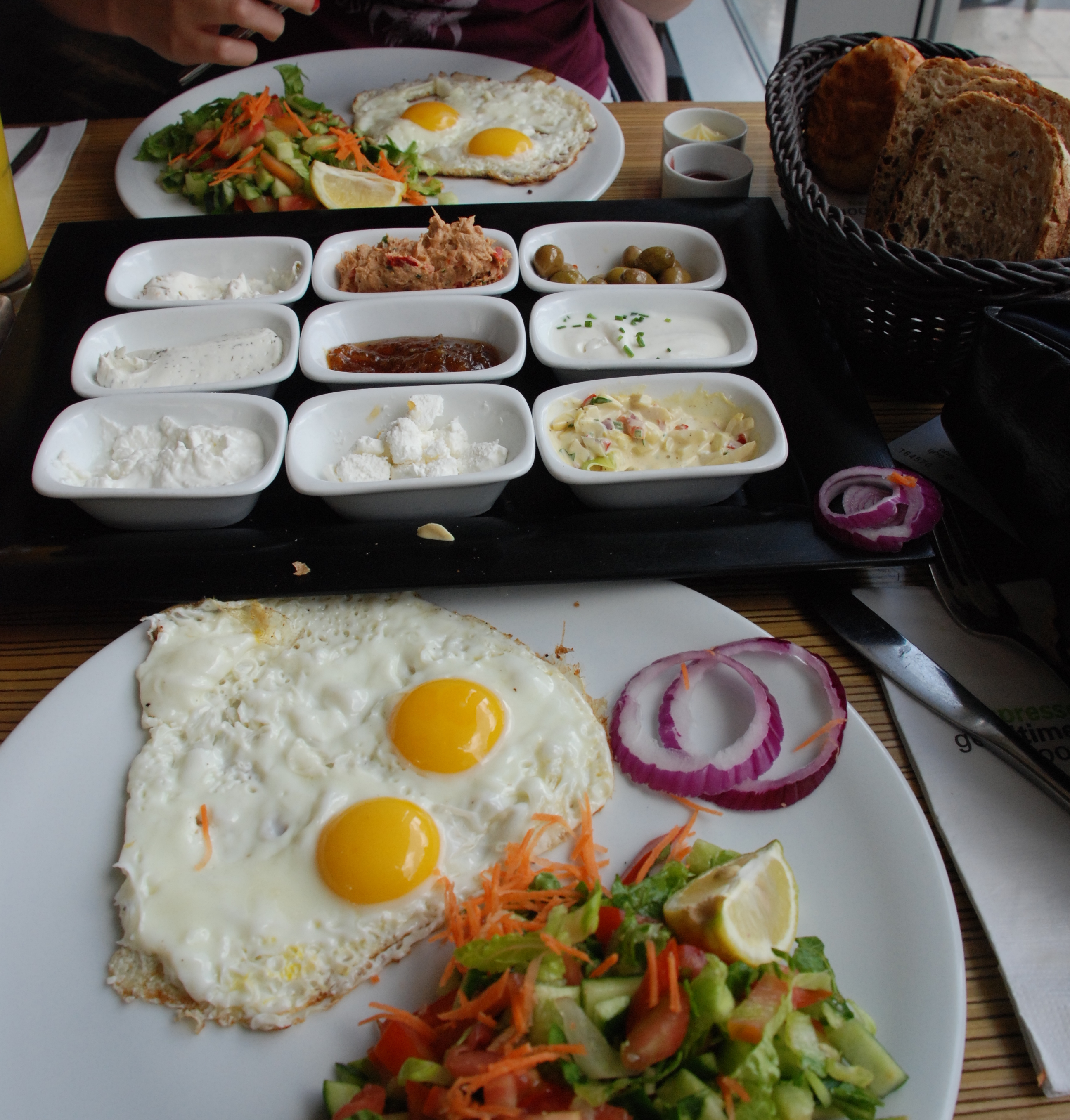 Here is breakfast at the Espresso Bar. Pros: Yummy plates. Nice big eggs. Excellent coffee. Cons: ok salad, ok bread, ok juice. Personal tilt: loved the place. Overall: 8.5/10 About The 7 Breakfasts series: My employers gave me seven free double-breakfast coupons with a certificate of appreciation thingy. Me and Moran, hopeless breakfast fanatics, decided to document each of the morning glories.